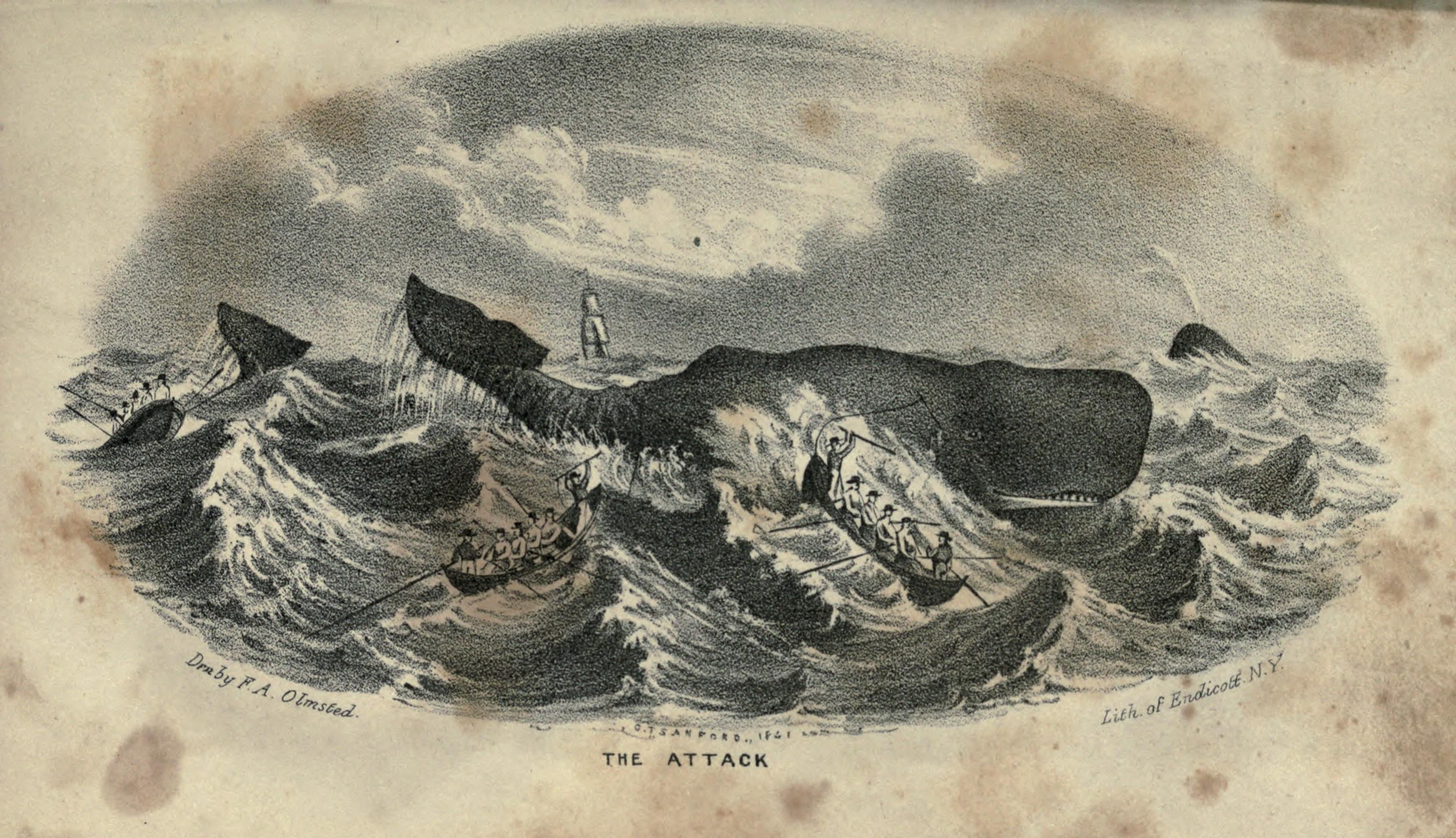 The Attack. Drawn by Francis Allyn Olmsted. Lithograph of Endicott, N. Y.